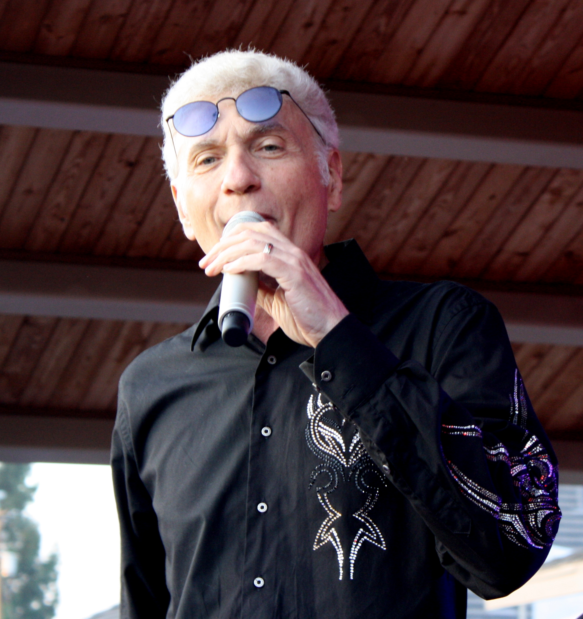 Dennis Deyoung singing; taken on July 7, 2010